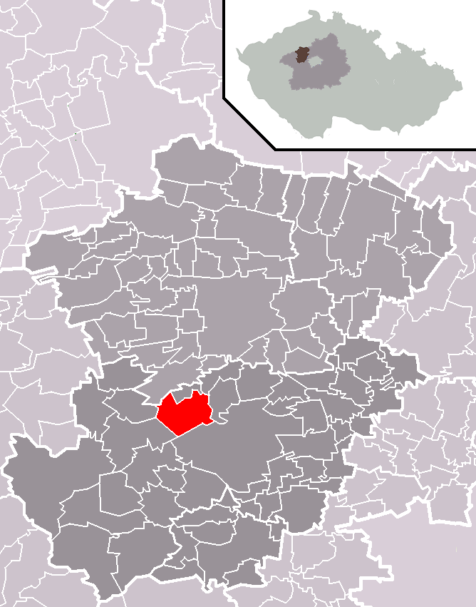 Location of Libušín town within Kladno District and administrative area of Kladno as a Municipality with Extended Competence.